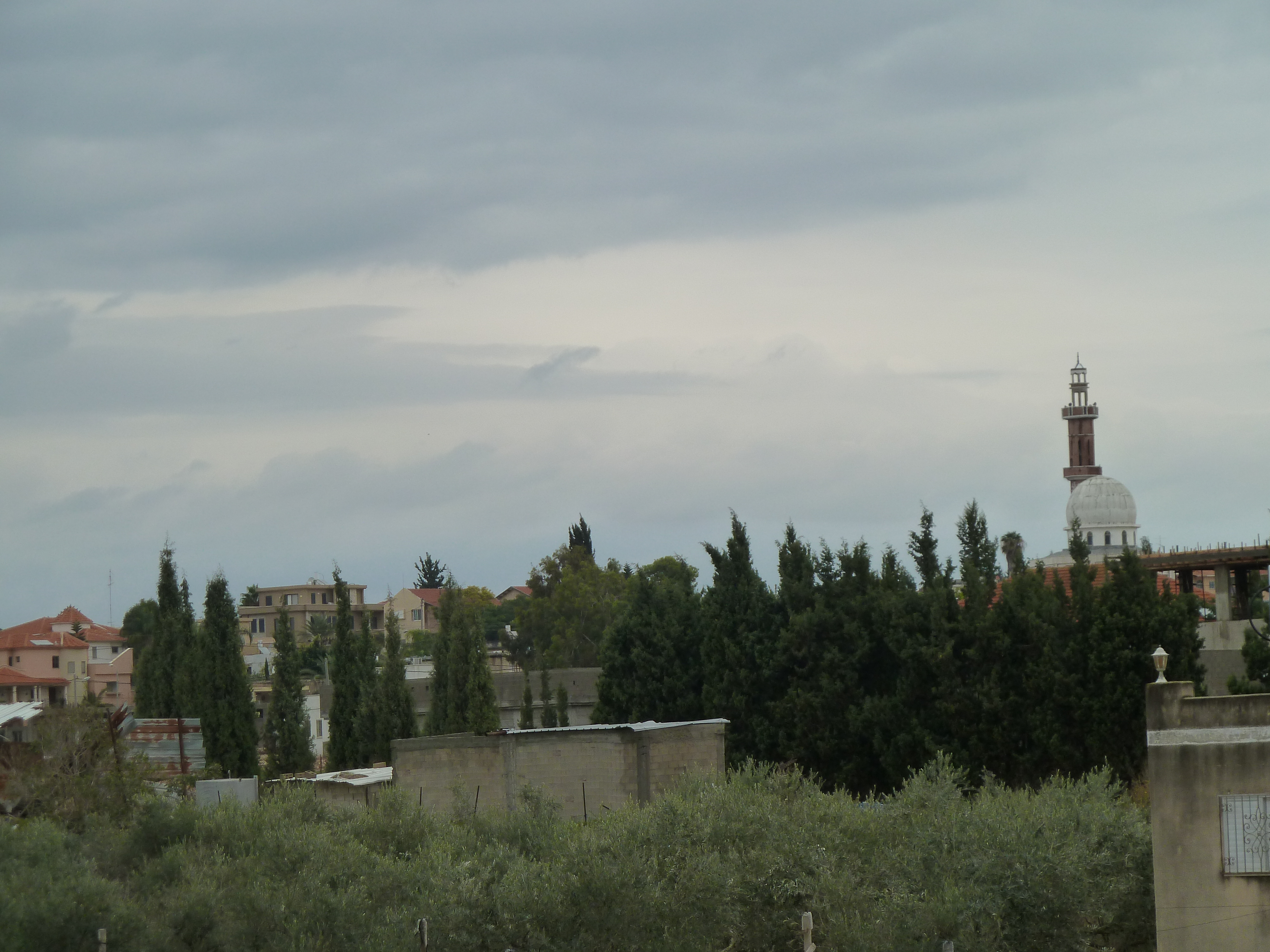 Kafr Qara